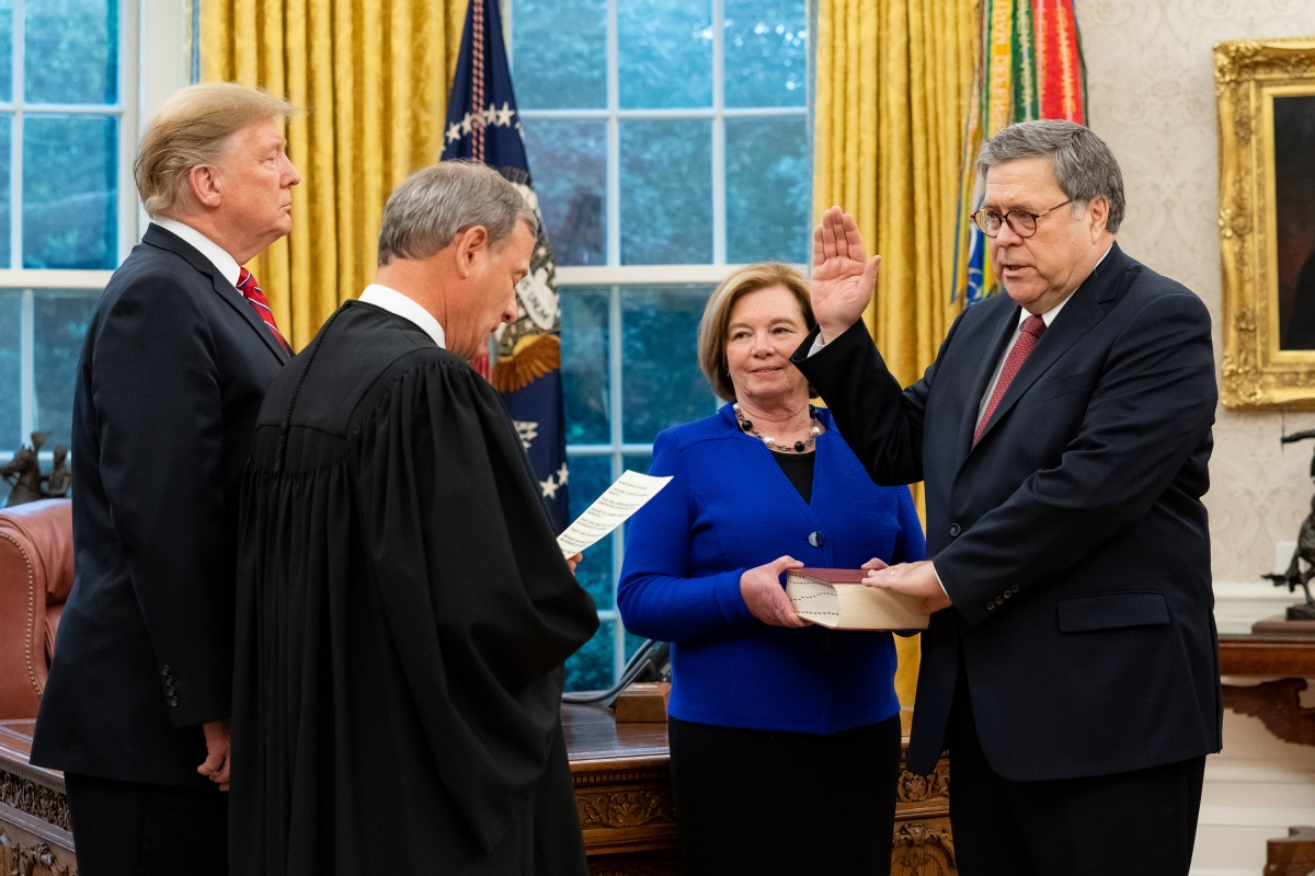 President Donald J. Trump participates in swearing-in of William P. Barr administered by U.S. Supreme Court Chief Justice John Roberts on February 14, 2019. Attorney General Barr's wife, Christine, holds the Bible.